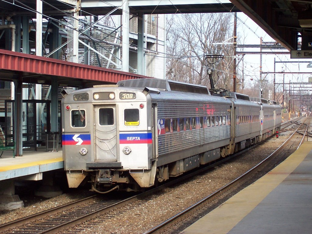 SEPTA GE Silverliner #308 leads Train 4127 signed as at Fern Rock Transportation Center, bound for Philadelphia Airport via downtown.